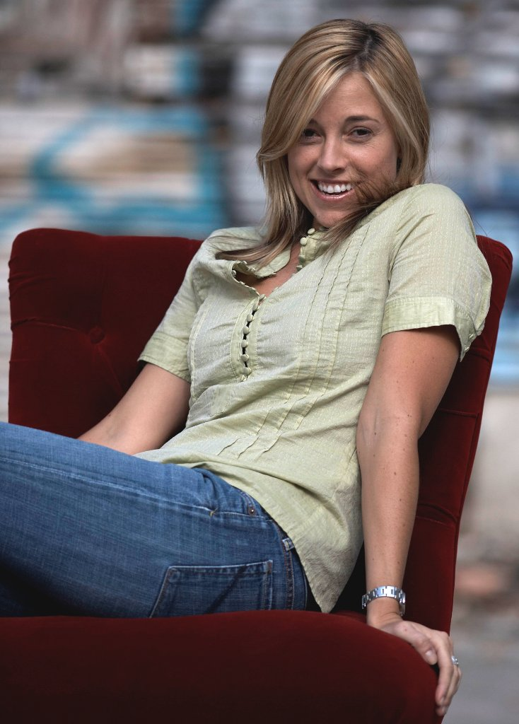 Cropped & brightness correction from File:Amber MacArthur.jpg